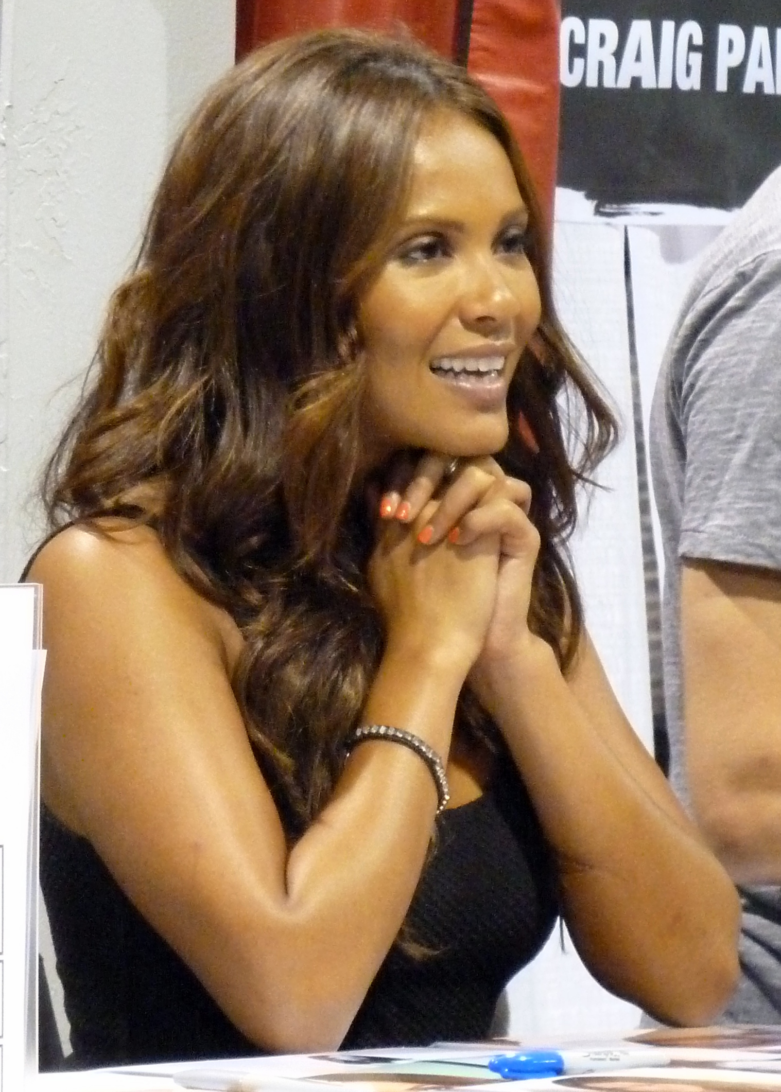 Lesley-Ann Brandt 06 Guests at Wizard World Chicago 2012.